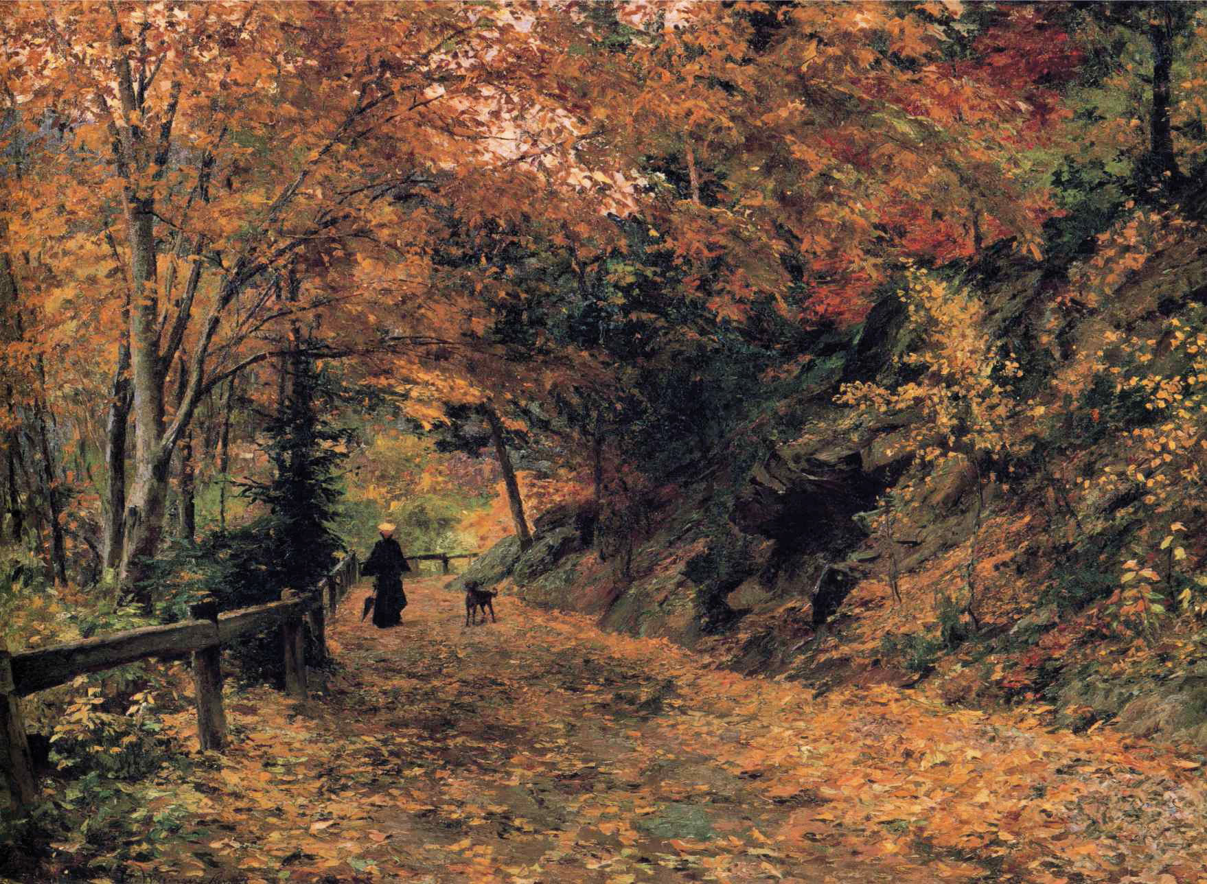 Falling Leaves